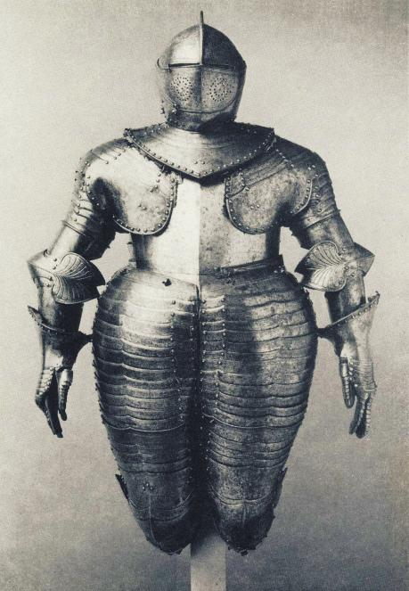 Photograph